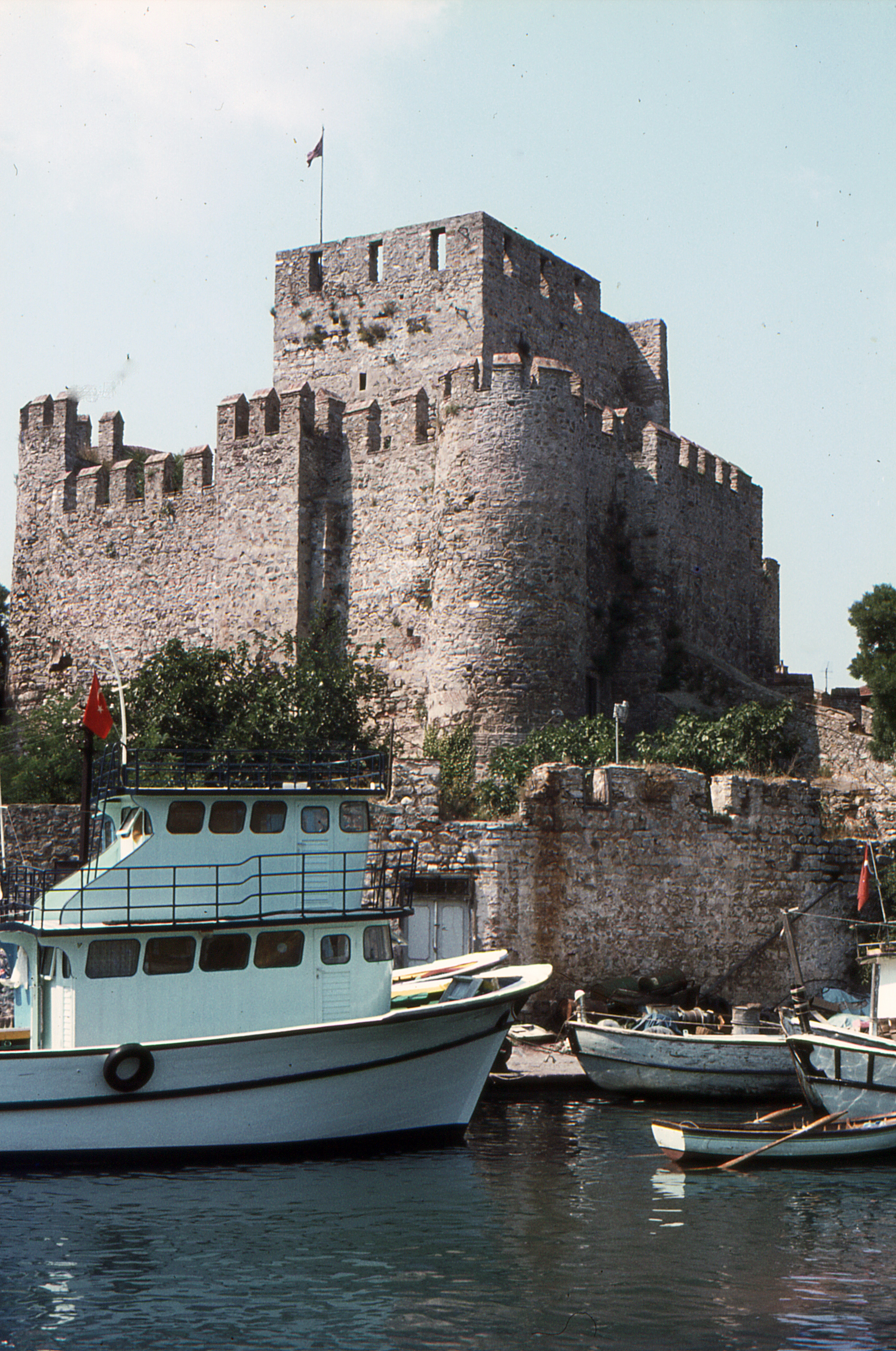 On the asian shore of the Bosphorus, the Anadoluhisarı is a fortress built by Bayezid I. It was a forward defense position, controlling access to Istanbul.